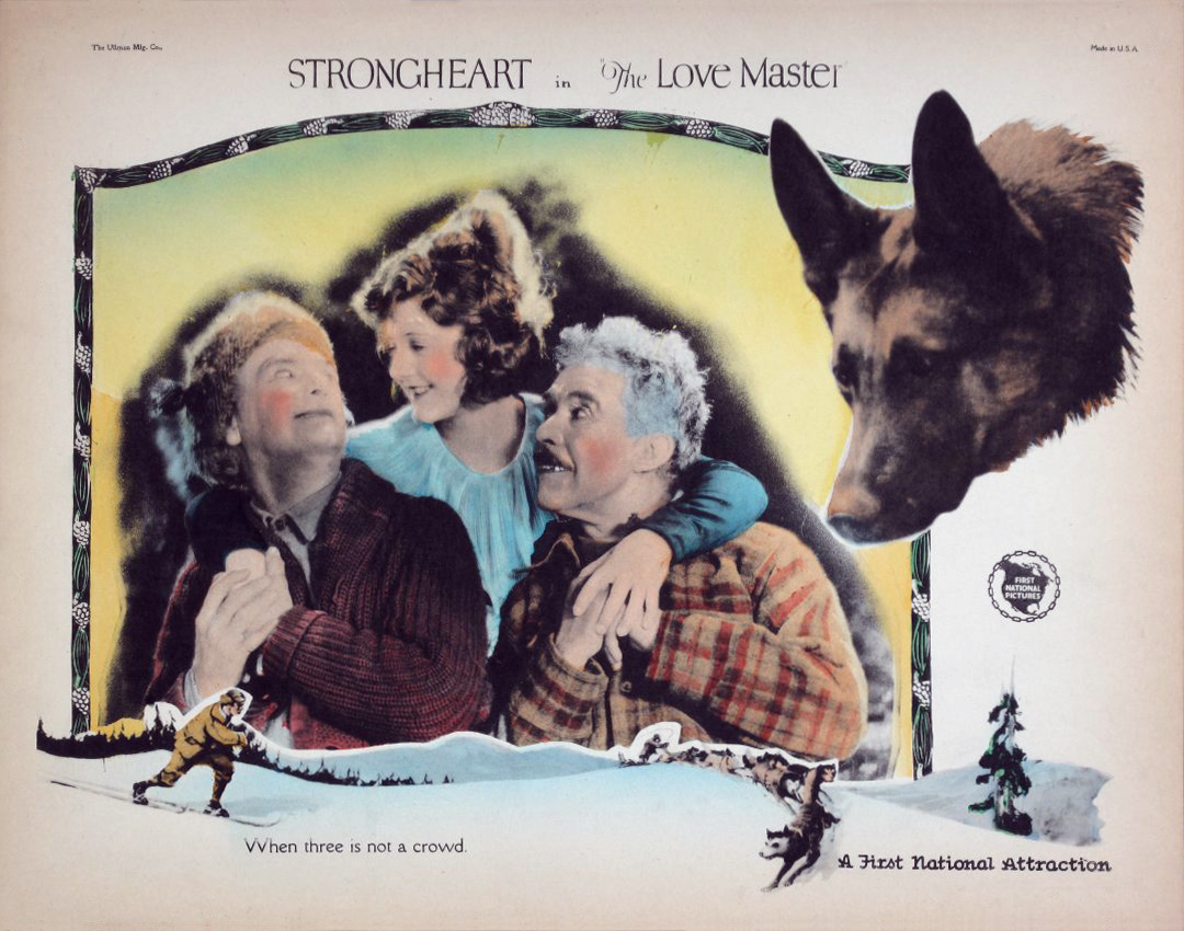 Lobby card for the 1924 film The Love Master